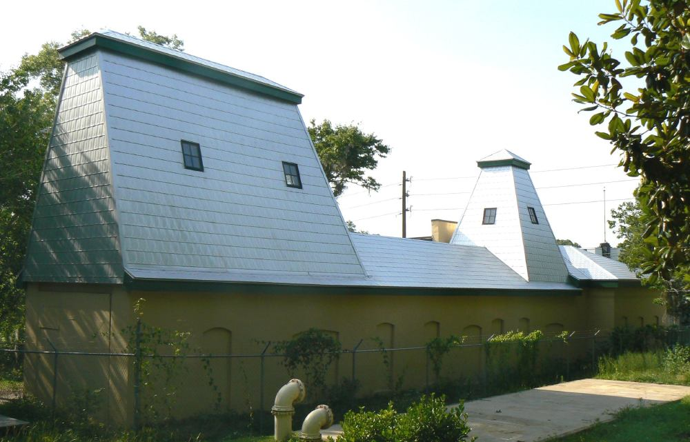 The Old City Waterworks in Tallahassee, Florida. This building is on the U.S. National Register of Historic Places.